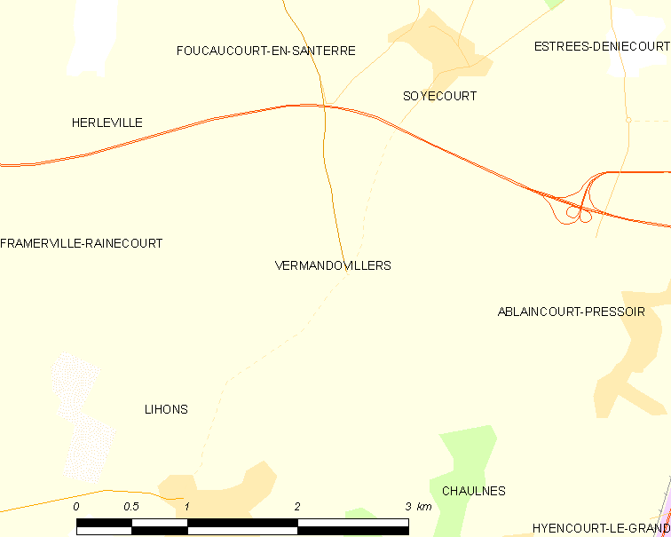 Map of French municipality Vermandovillers